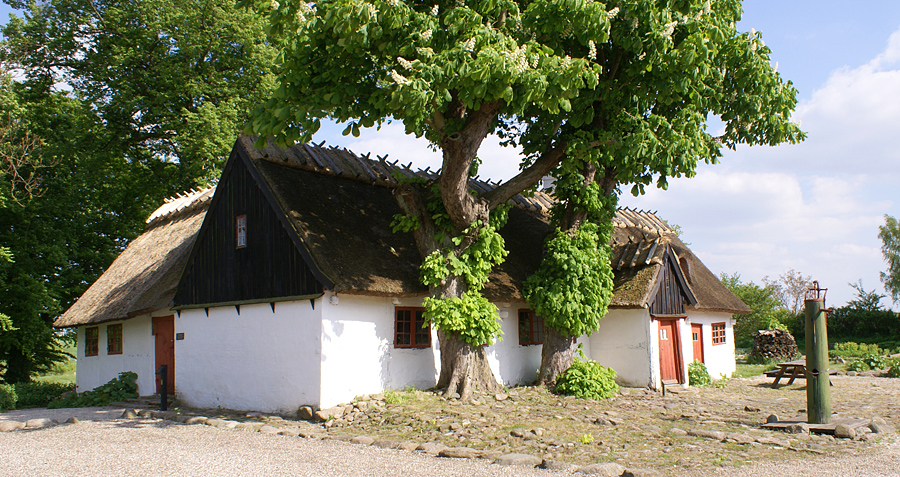 Gammel Kongsgaard, old farm-house from around 1700. Now part of Lejre Museum, Lejre, Denmark